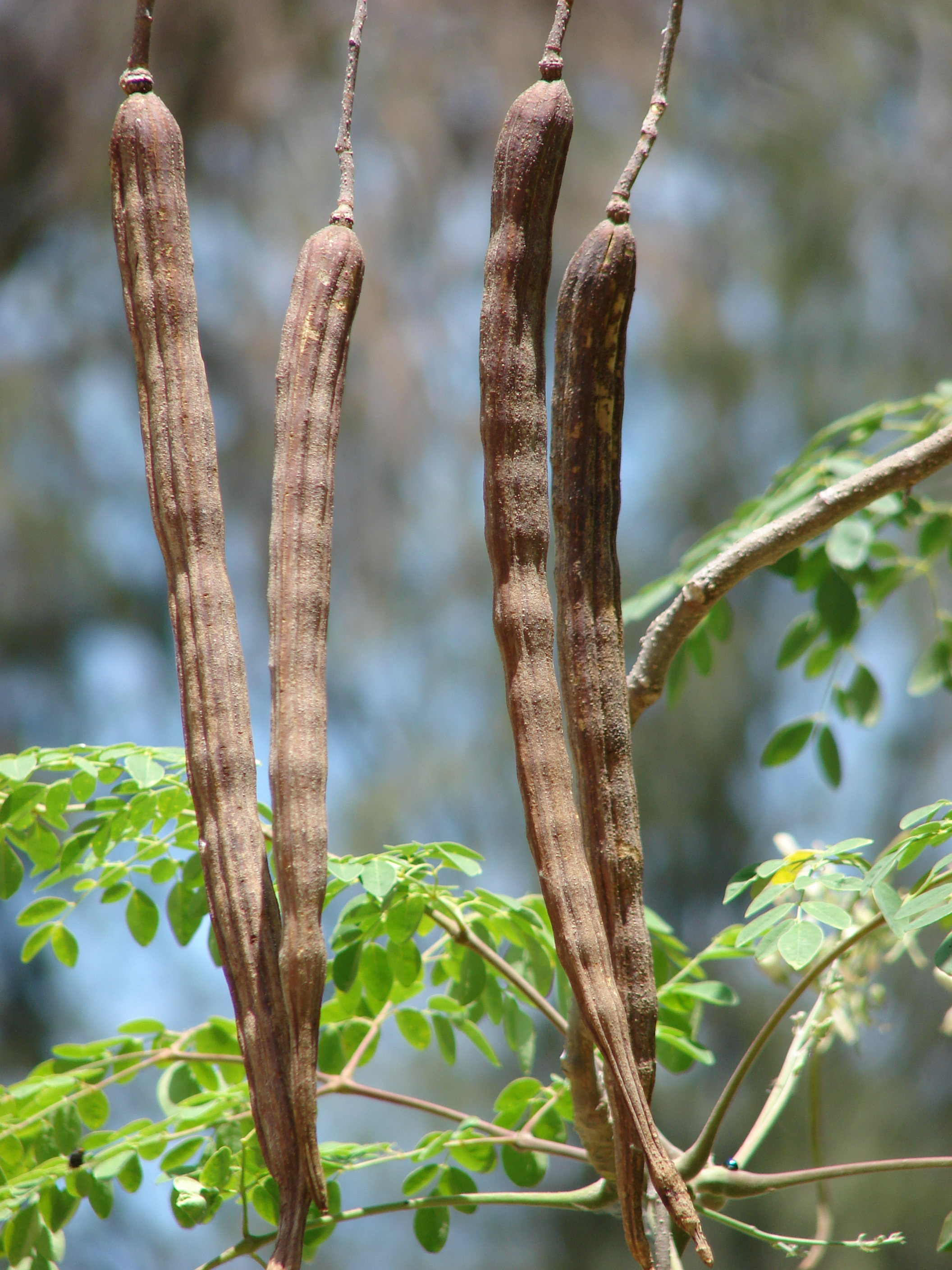 Moringa oleifera (seedpods). Location: Midway Atoll, Community garden Sand Island